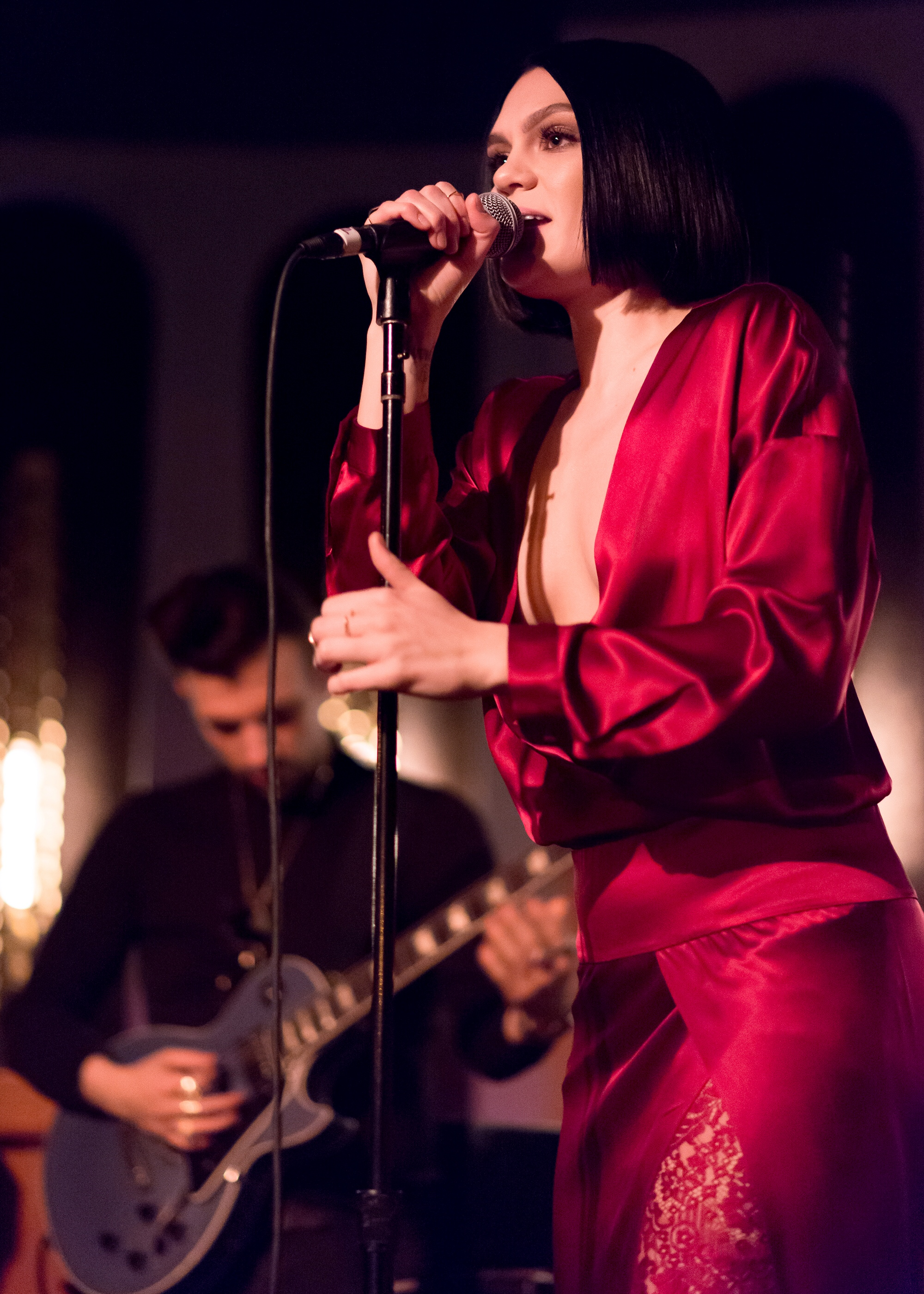 Jessie J performing live at The Peppermint Club in Los Angeles, California, on Sunday, December 17, 2017.